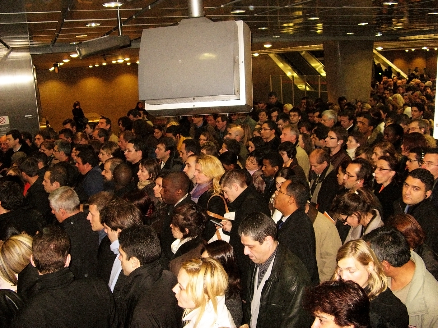 Passengers waiting for the next Metro at the "La Défense" Metro station during the 2007 Transport Strike. The RATP personal had to restrict access to this part of the station due to the number of people waiting.